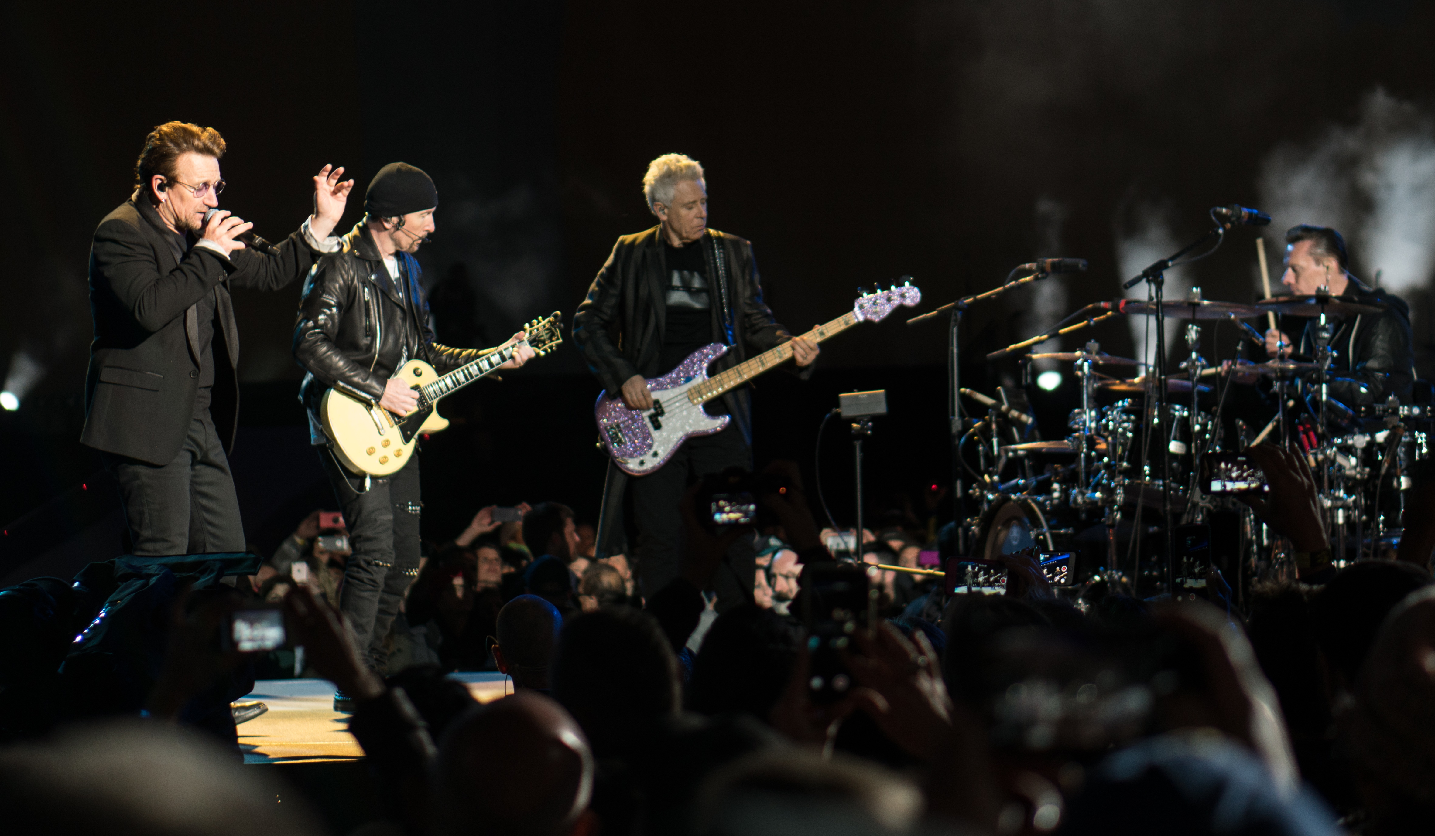 U2 performing on the B-stage during the Joshua Tree Tour 2017 at CenturyLink Field in Seattle, WA on May 14, 2017